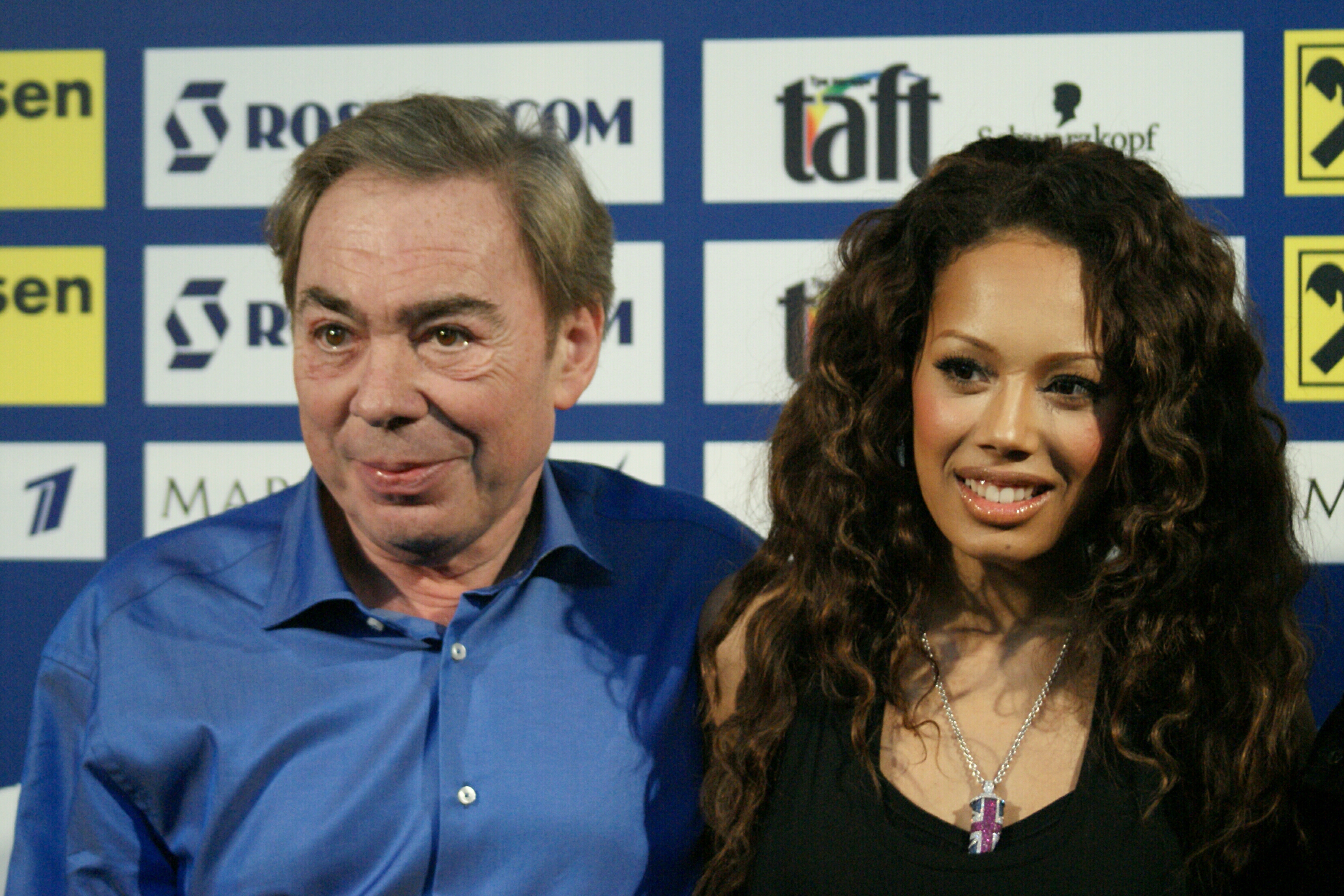 Andrew Lloyd Webber and Jade Ewen.